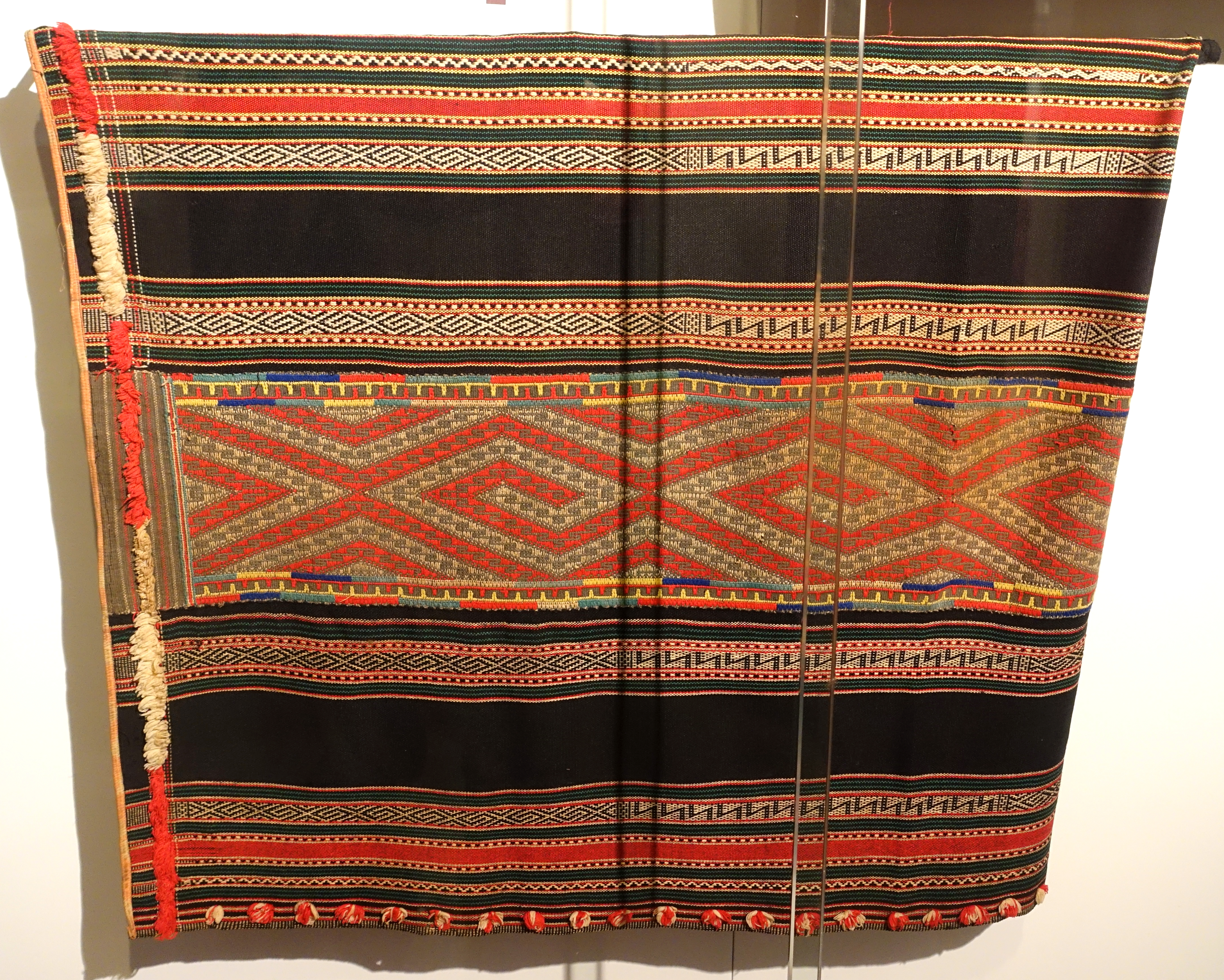 Exhibit in the Vietnamese Women's Museum, Hanoi, Vietnam.